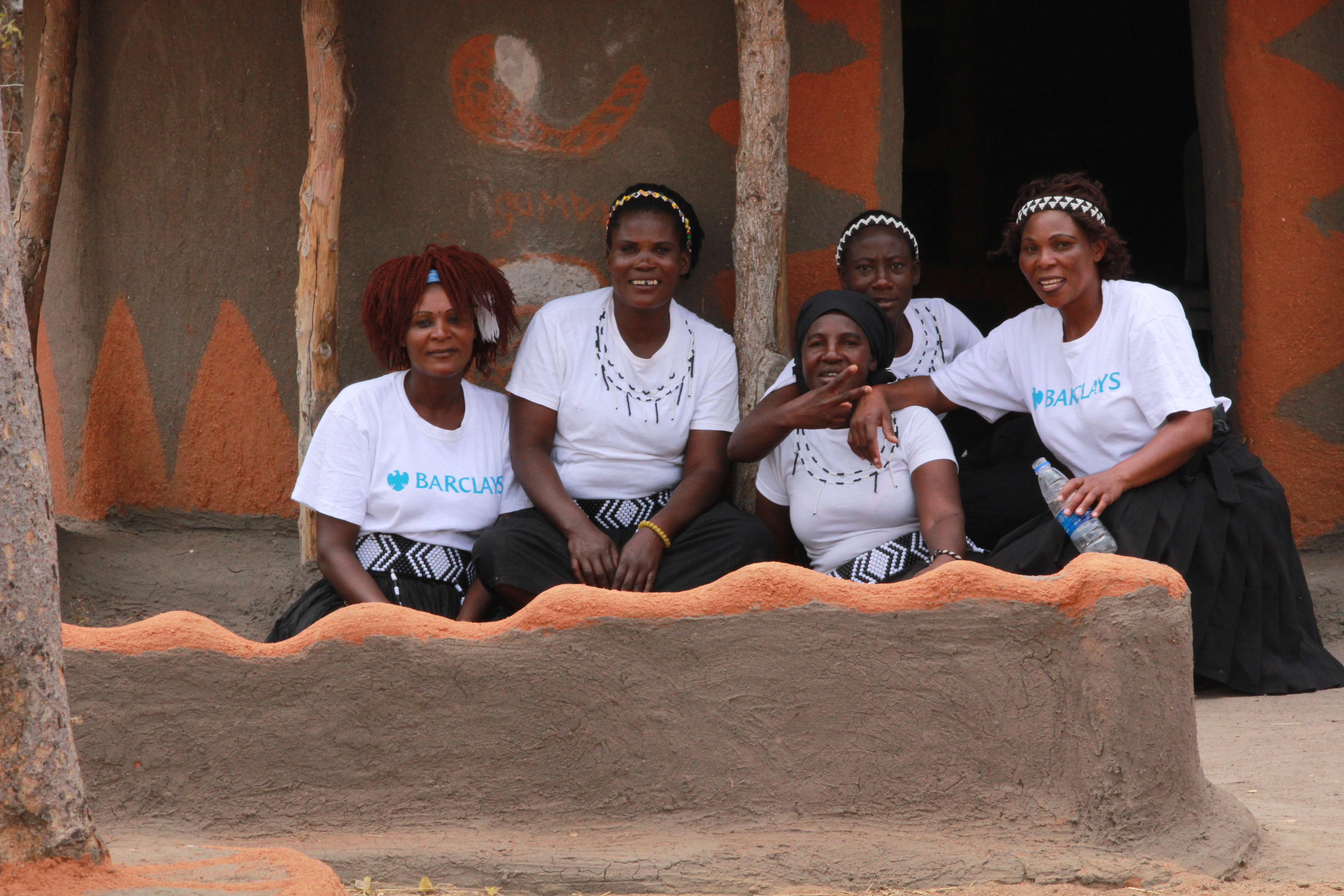 Hosanas in front of a thatched traditional house at Domboshaba cultural festival 3